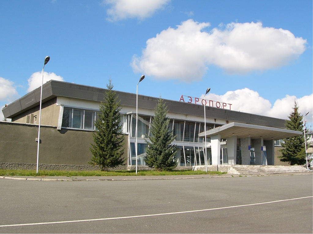 Gorno-Altaysk Airport terminal building